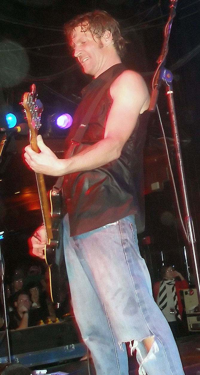 Jay Bentley playing with Bad Religion at the Starland Ballroom, New Jersey.